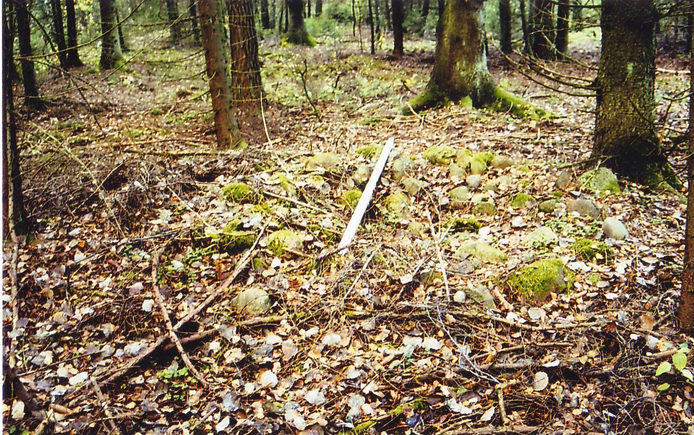 Dubašiai, Kretinga district, Lithuania